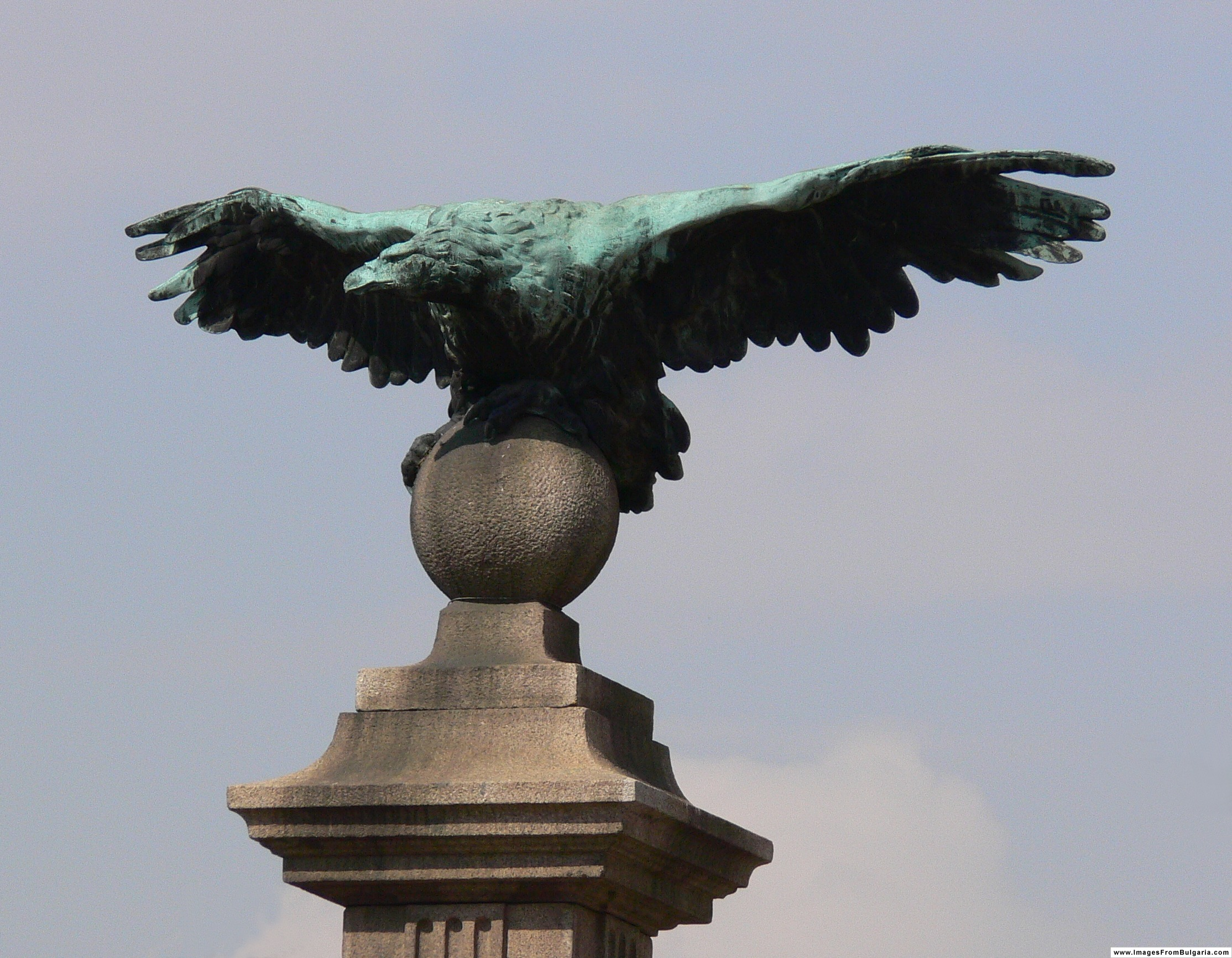 Orlov most, Sofia, Bulgaria.